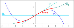 Application of the fixed point theorem to proove Cauchy-Lipschitz theorem